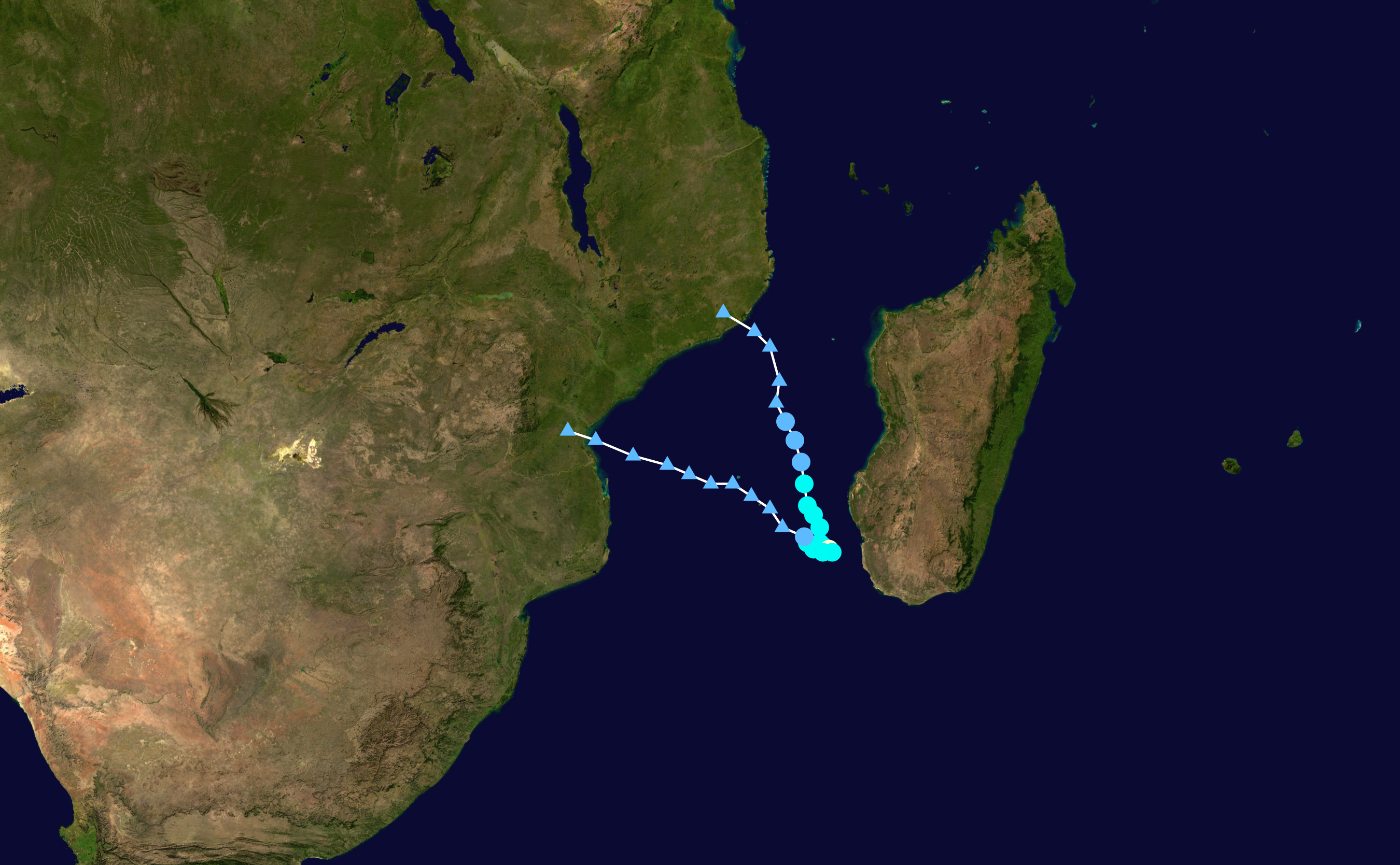 Track map of Severe Tropical Storm Izilda of the 2008-09 South West Indian Ocean cyclone season. The points show the location of the storm at 6-hour intervals. The colour represents the storm's maximum sustained wind speeds as classified in the Saffir–Simpson scale (see below), and the shape of the data points represent the nature of the storm, according to the legend below. Saffir–Simpson scale Tropical depression≤38 mph≤62 km/h Category 3111–129 mph178–208 km/h Tropical storm39–73 mph63–118 km/h Category 4130–156 mph209–251 km/h Category 174–95 mph119–153 km/h Category 5≥157 mph≥252 km/h Category 296–110 mph154–177 km/h Unknown Storm type Tropical cyclone Subtropical cyclone Extratropical cyclone / Remnant low / Tropical disturbance / Monsoon depression